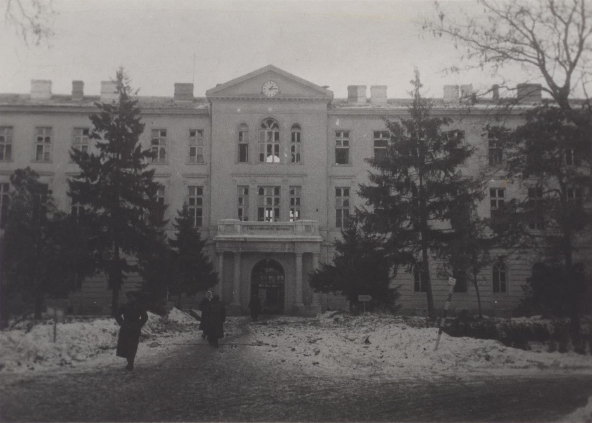 Sofia Bombings 1944: Alexandrovska Hospital